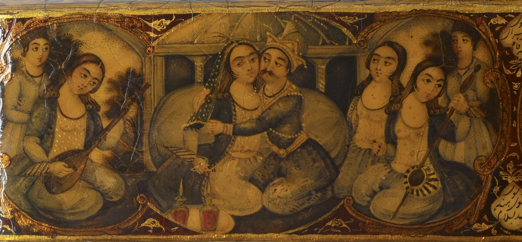 This pen box is adorned with scenes from one of the great classics of Persian literature: the Haft Paykar (Seven Images) by the medieval poet Nizami of Ganja (ca. 1141-1209). The central part of the Haft Paykar elaborates on a series of visits made by the pre-Islamic Sassanian king Bahram V Gur to the princesses of the seven climes, each of whom recounts an edifying story on kingly virtues, followed by the pleasures of feasting and love, as depicted here. In the central oval on the top of this pen box is the image of the Virgin Mary and infant Jesus.